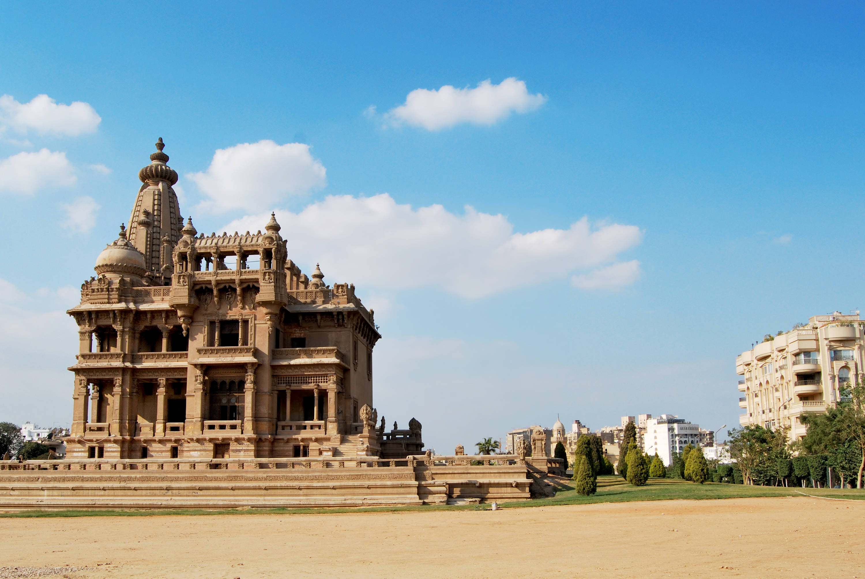 The reverse side of Baron Empain Palace (Qasr Al Baron) in Heliopolis, Cairo.